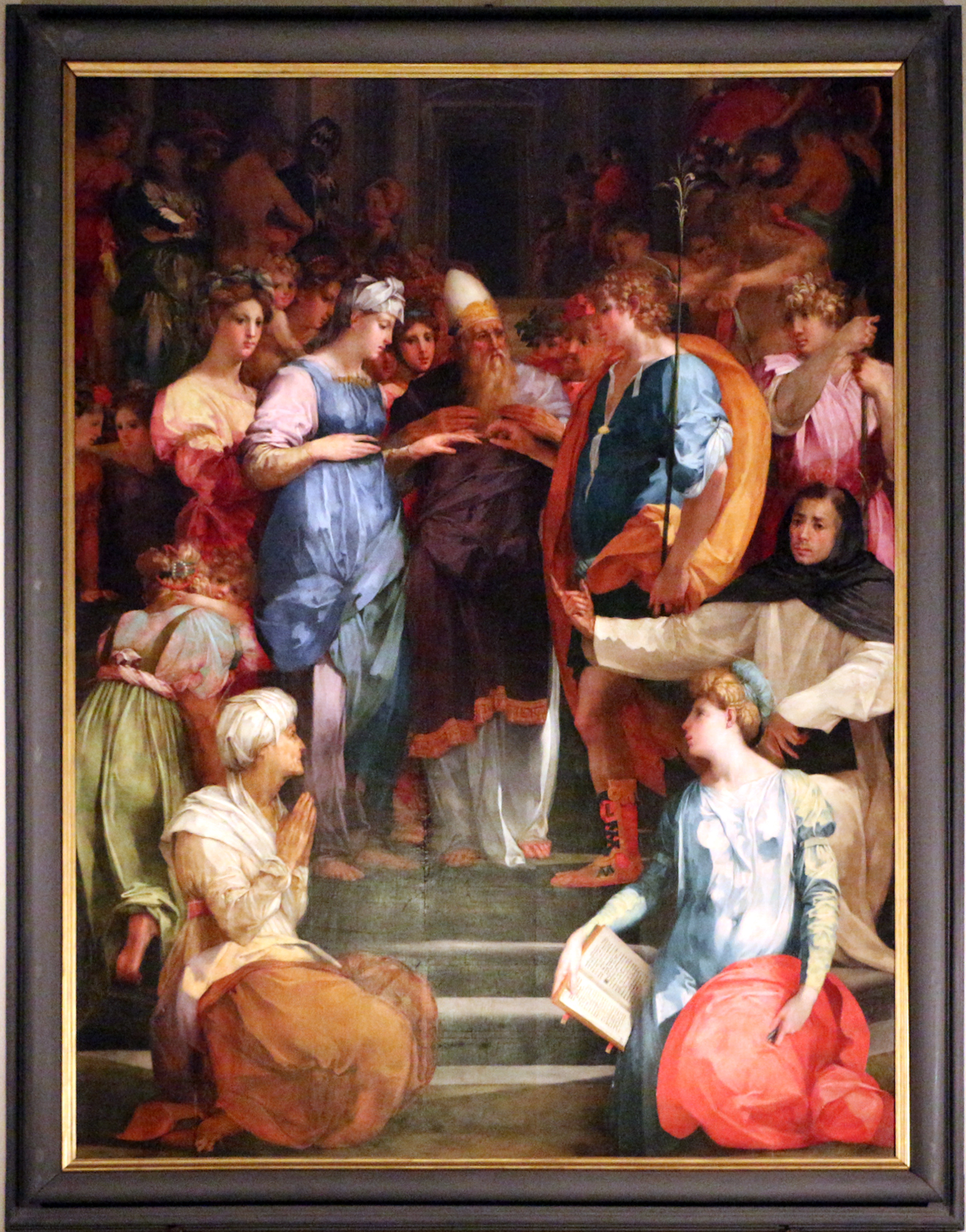 Interior of the Basilica of San Lorenzo (Florence)